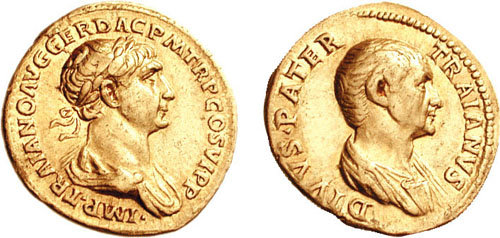 TRAJAN. 98-117 AD. AV Aureus (7.27 g, 7h). Struck 115 AD. IMP TRAIANO AVG GER DAC P M TR P COS VI P P, laureate and draped bust right, seen from behind DIVVS • PATER TRAIANVS, draped bust of Trajan's father right. RIC II 764; Strack 154; Calicó 1136; BMCRE 506 note; Cohen 3.